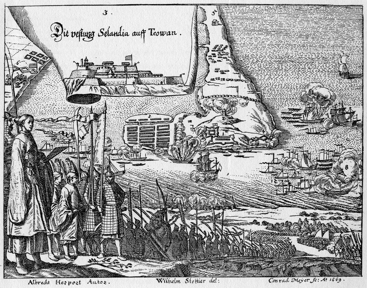 Battle of Zeelandia on the island of Formosa (Taiwan) between the Dutch and Coxinga